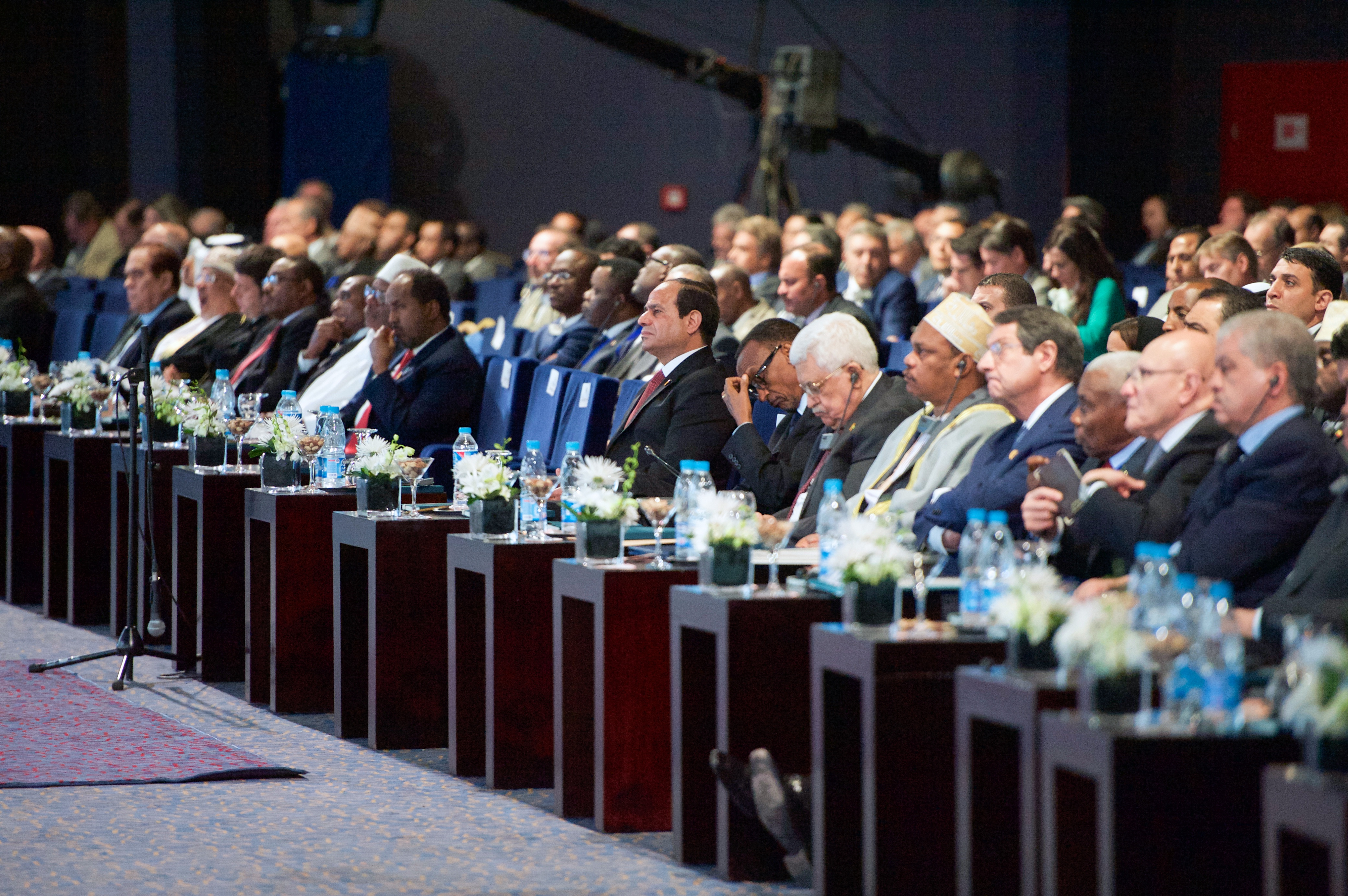 Egyptian President Abdel Fattah al-Sisi listens as U.S. Secretary of State John Kerry delivers remarks to an international audience of several thousand attending an Egyptian development conference at the Congress Center in Sharm el-Sheikh, Egypt, on March 13, 2015. [State Department photo/ Public Domain]